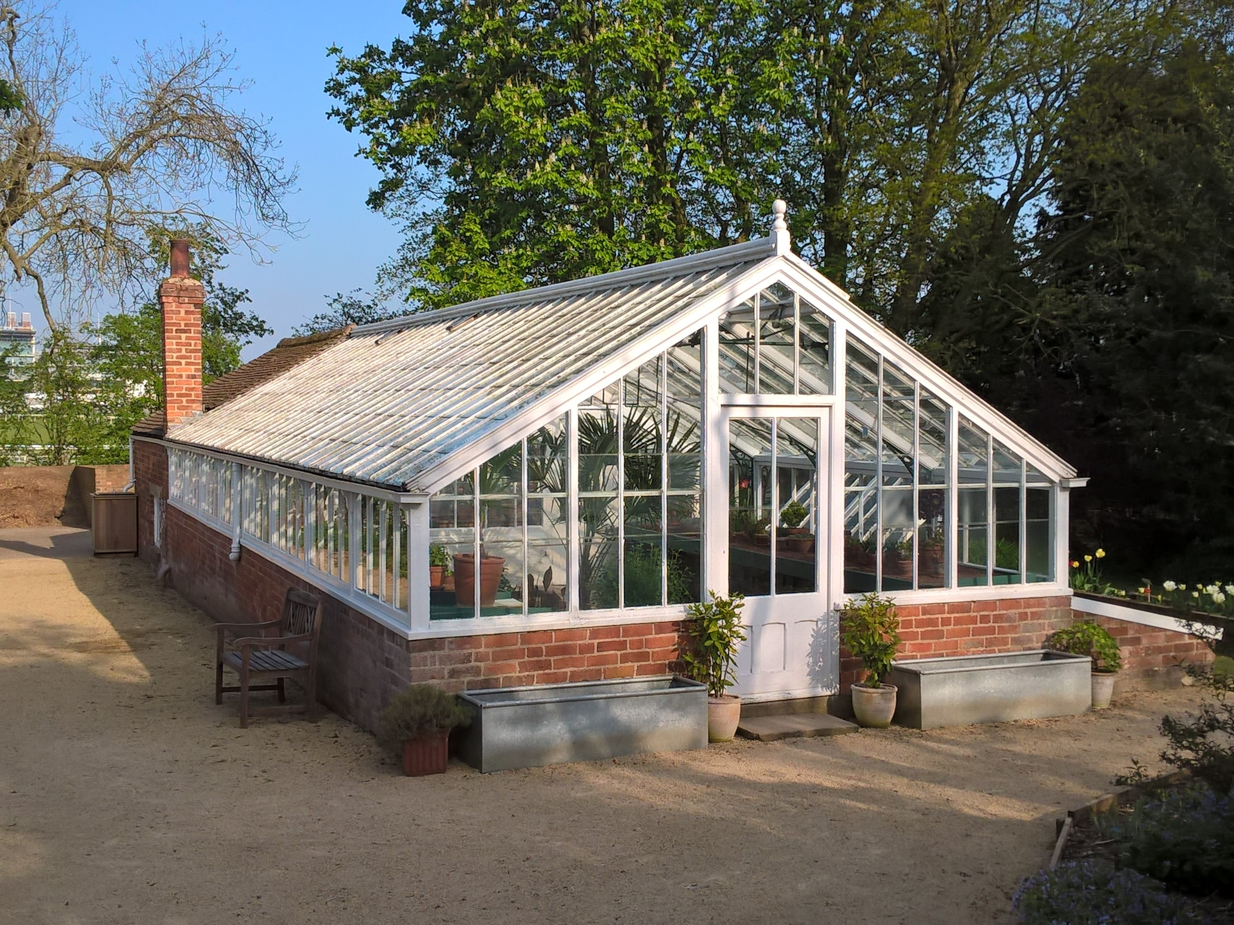 Goddards House and Garden, York (Grade I Listed building - Ref no. 1256461) - April 2019. The glasshouse made by Richardson of Darlington